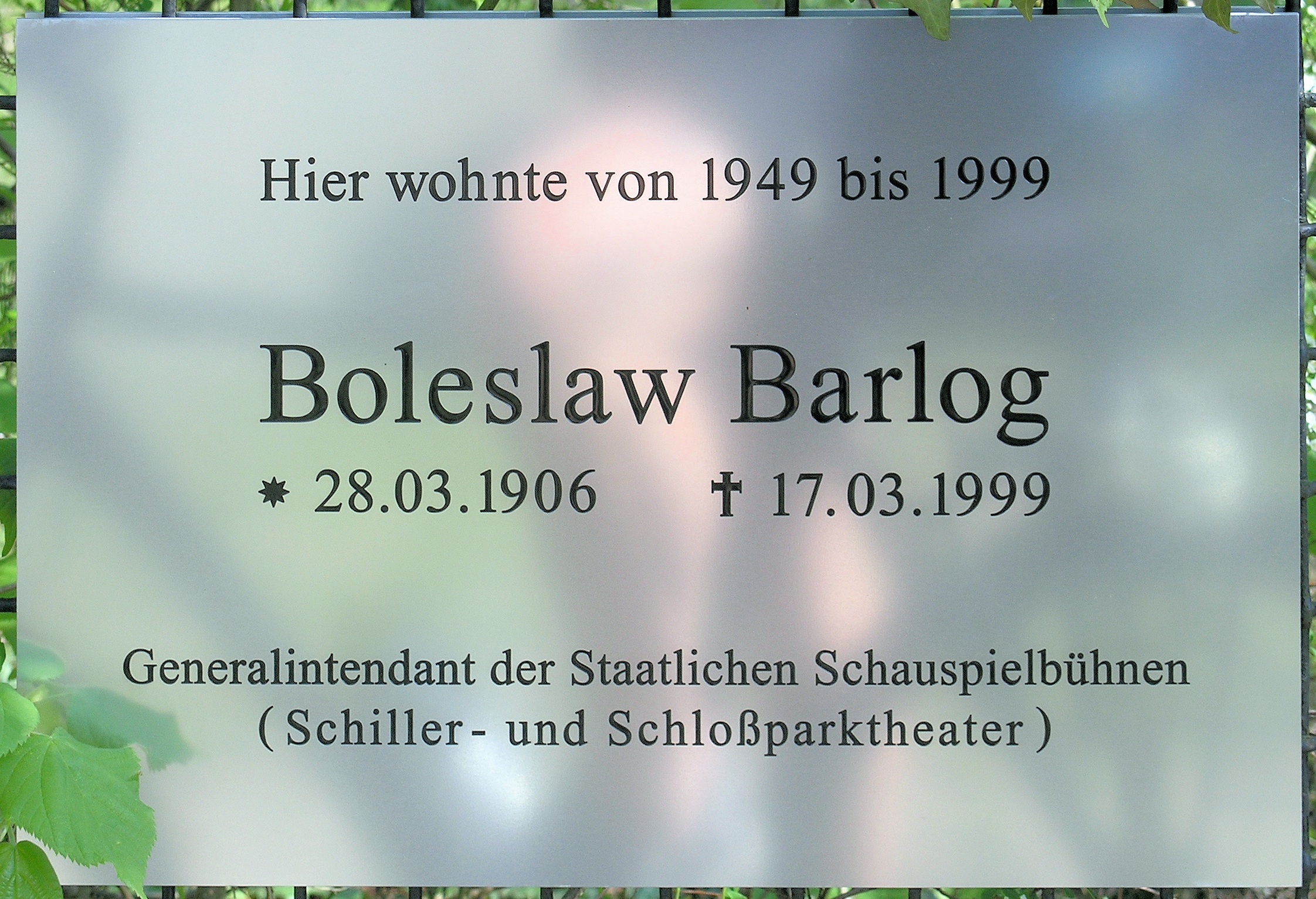 Memorial plaque, Boleslaw Barlog, Spindelmühler Weg 7, Berlin-Lichterfelde, Germany Koordinate:52°26′13″N 13°17′5″E / 52.43694°N 13.28472°E